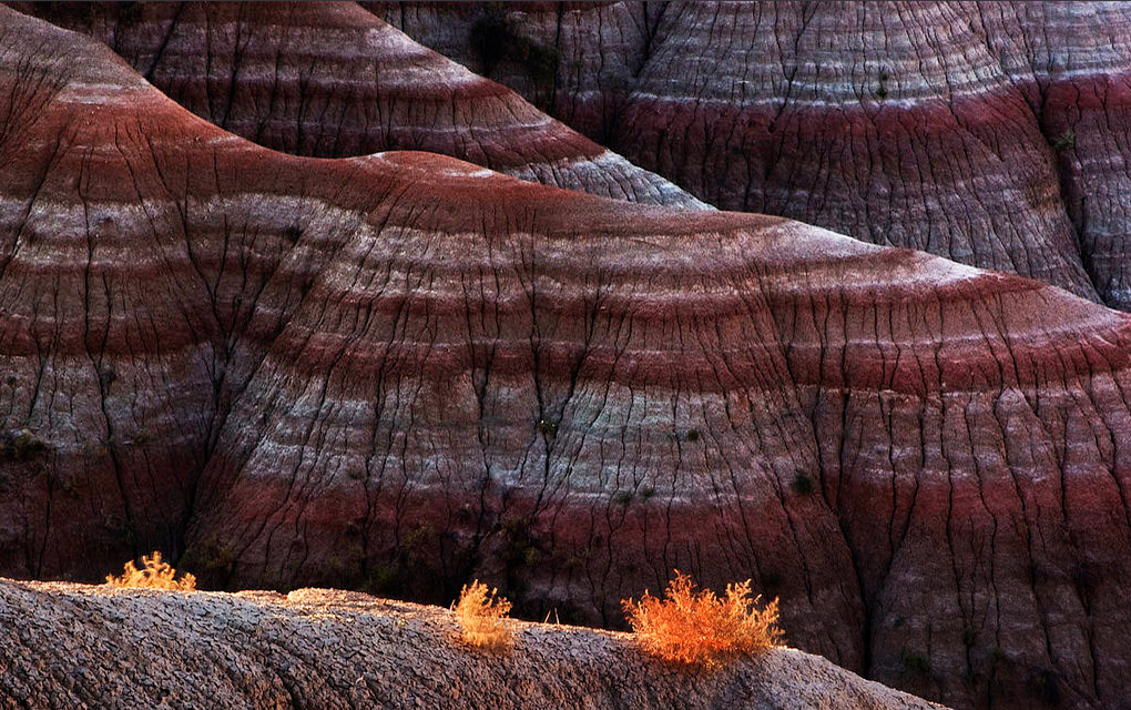 Striated hills in South Dakota's Badlands, USA. Last rays of sunset hit a few small plants.